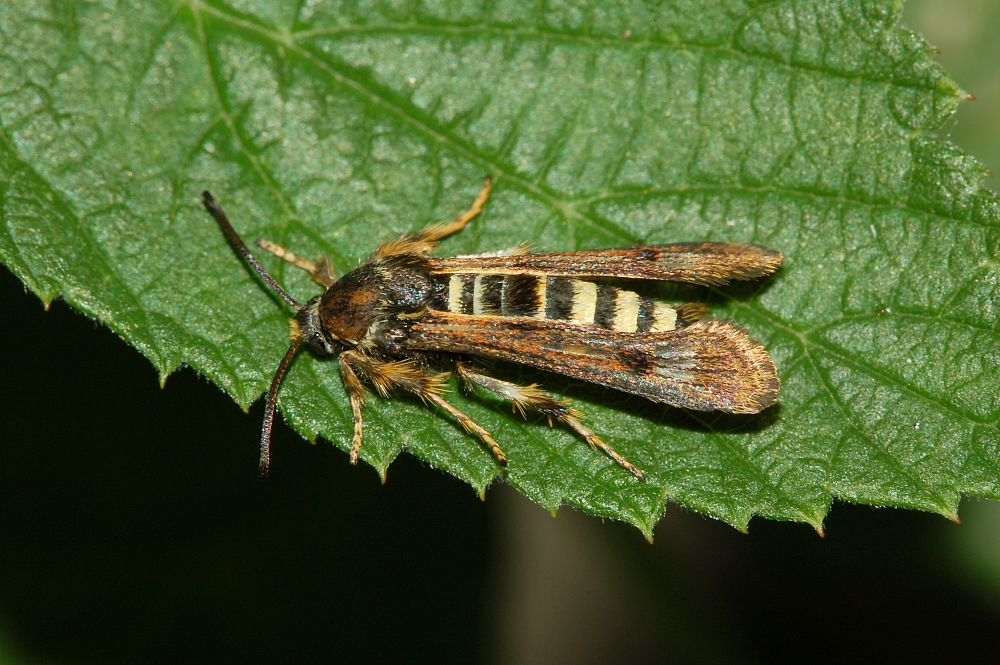 Pennisetia hylaeiformis, Oberreifenberg, Taunus, Hesse, Germany